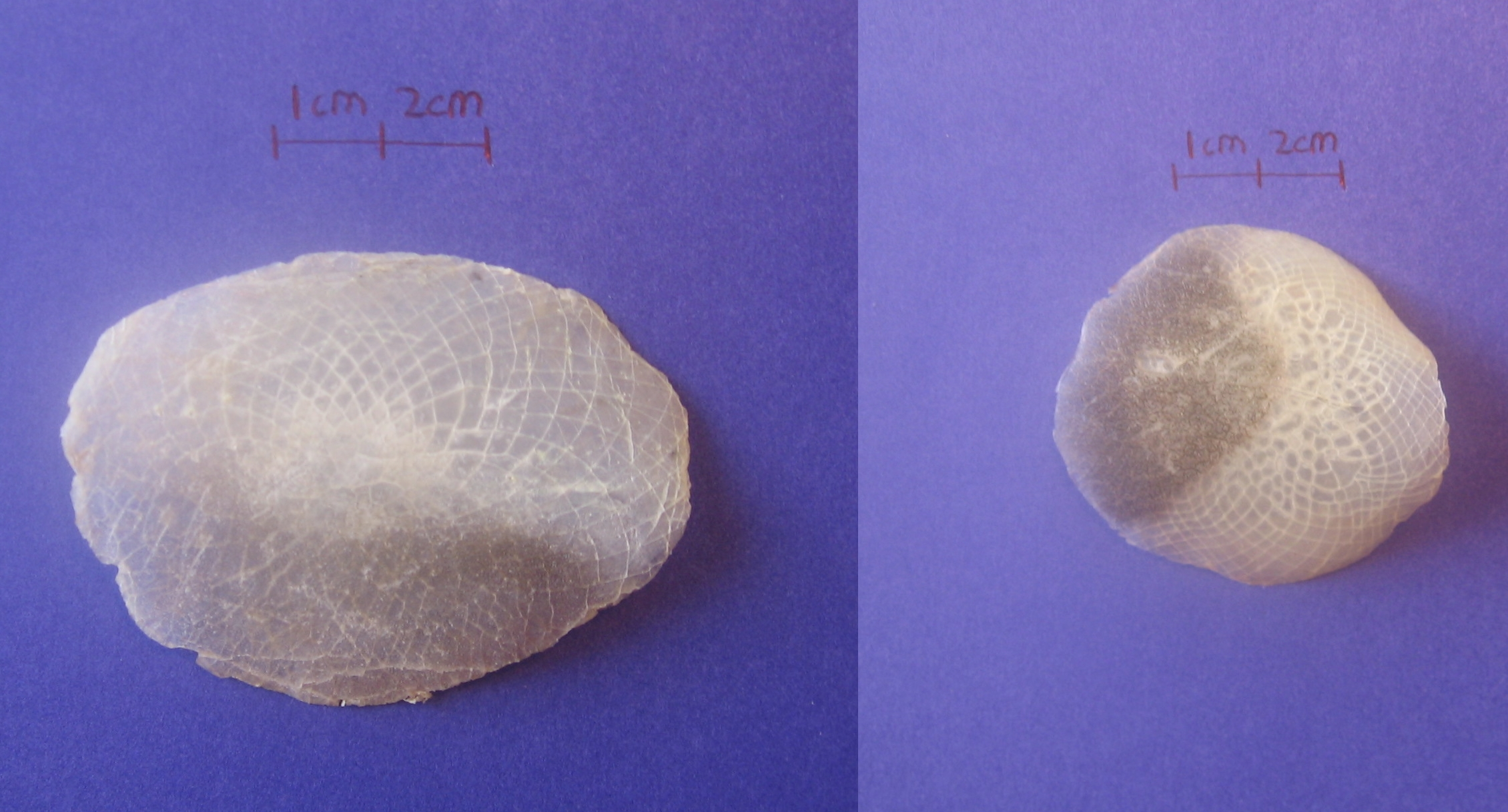 Scales shed from an Asian arowana (Scleropages sp.)